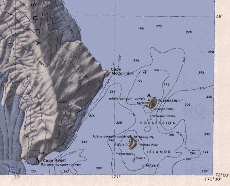 Map of Possession Islands in the Ross Sea.